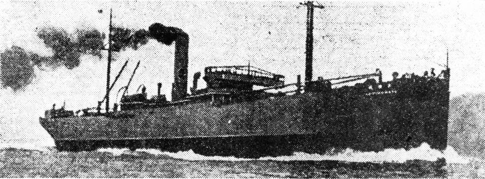 Raifuku Maru (ship) Making for Hamburg from Boston - lost with crew of 60 in the Atlantic. Lifeboats smashed by giant waves. (Description supplied with photograph.).